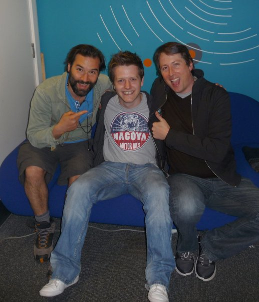 Joe Cornish in the BBC 6music Studios.